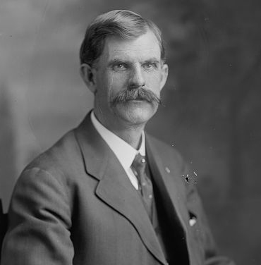 Kentucky Congressman J. Campbell Cantrill